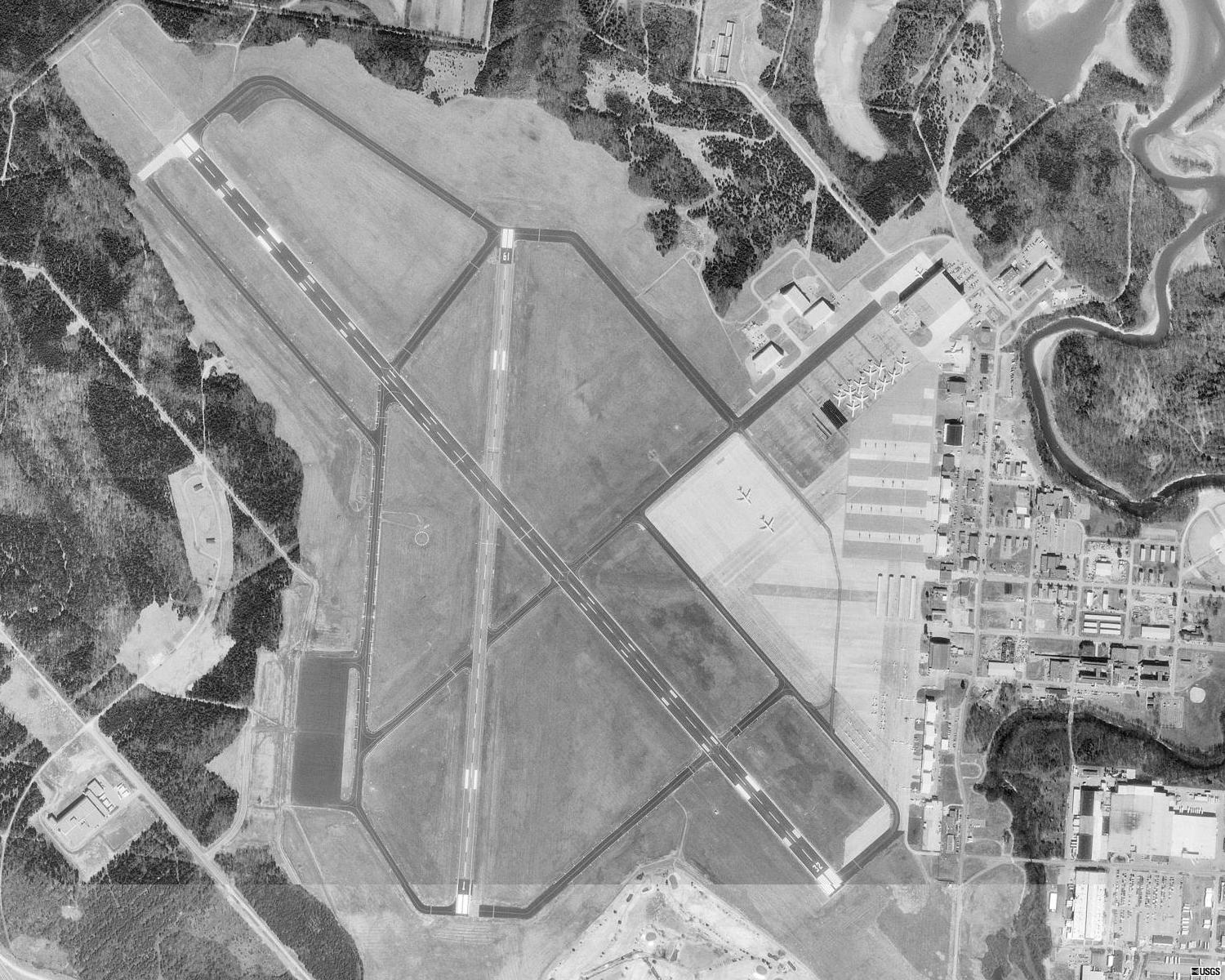 Aerial image of Smyrna Airport (FAA: MQY) in Tennessee; formerly Smyrna Army Airfield, then Sewart Air Force Base.